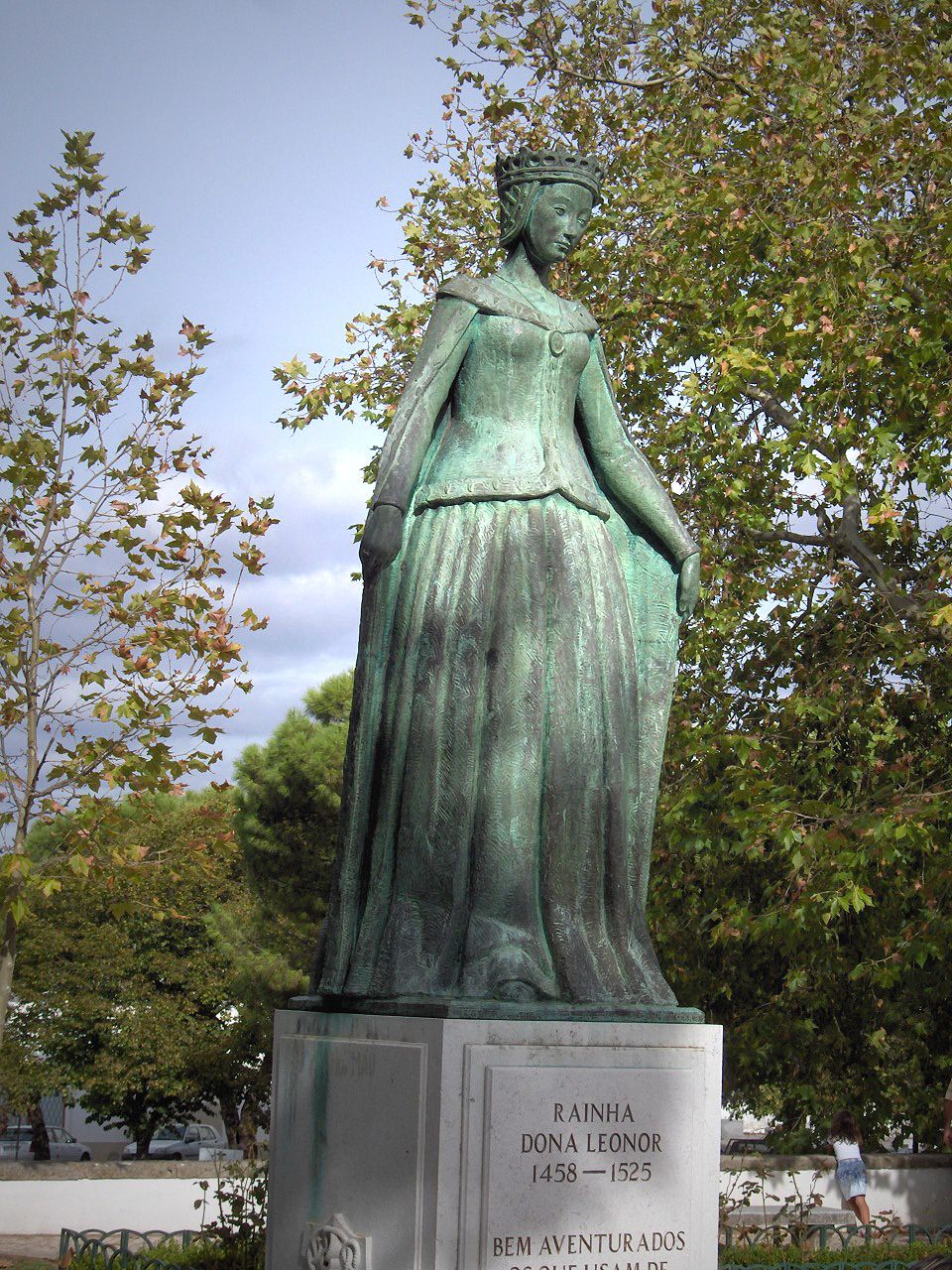 Álvaro de Brée, Statue of Leonor of Viseu (1458-1525), Queen of Portugal; Beja, Portugal